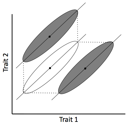 Allometric engineering: Simple graph to illustrate shifts in scaling to break covariation among traits – Original population is represented in white and novel engineered populations are shown in grey. Allometric shifts will increase the overall variation in one trait relative to the other breaking their typical correlation